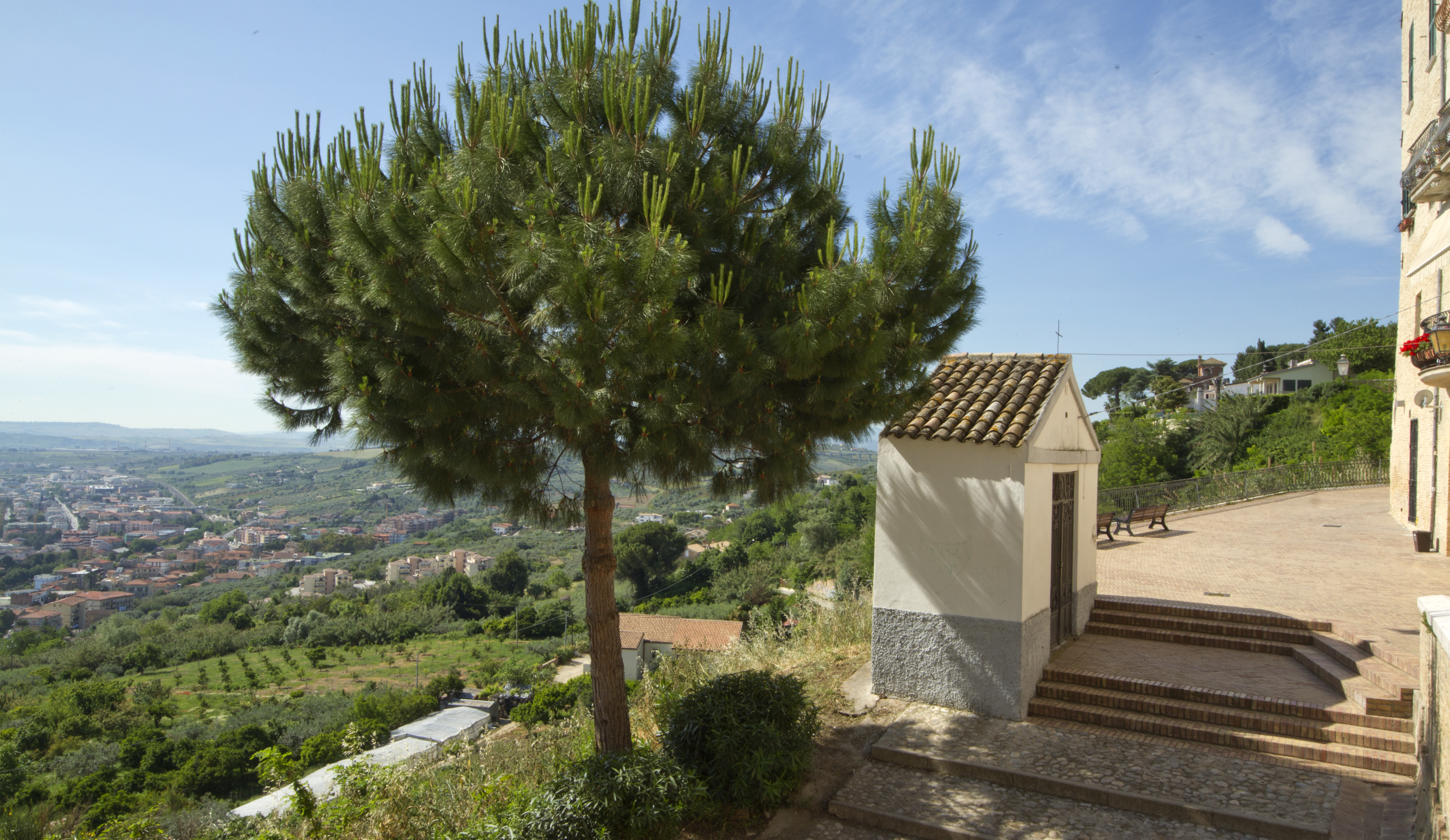 66054 Vasto, Province of Chieti, Italy